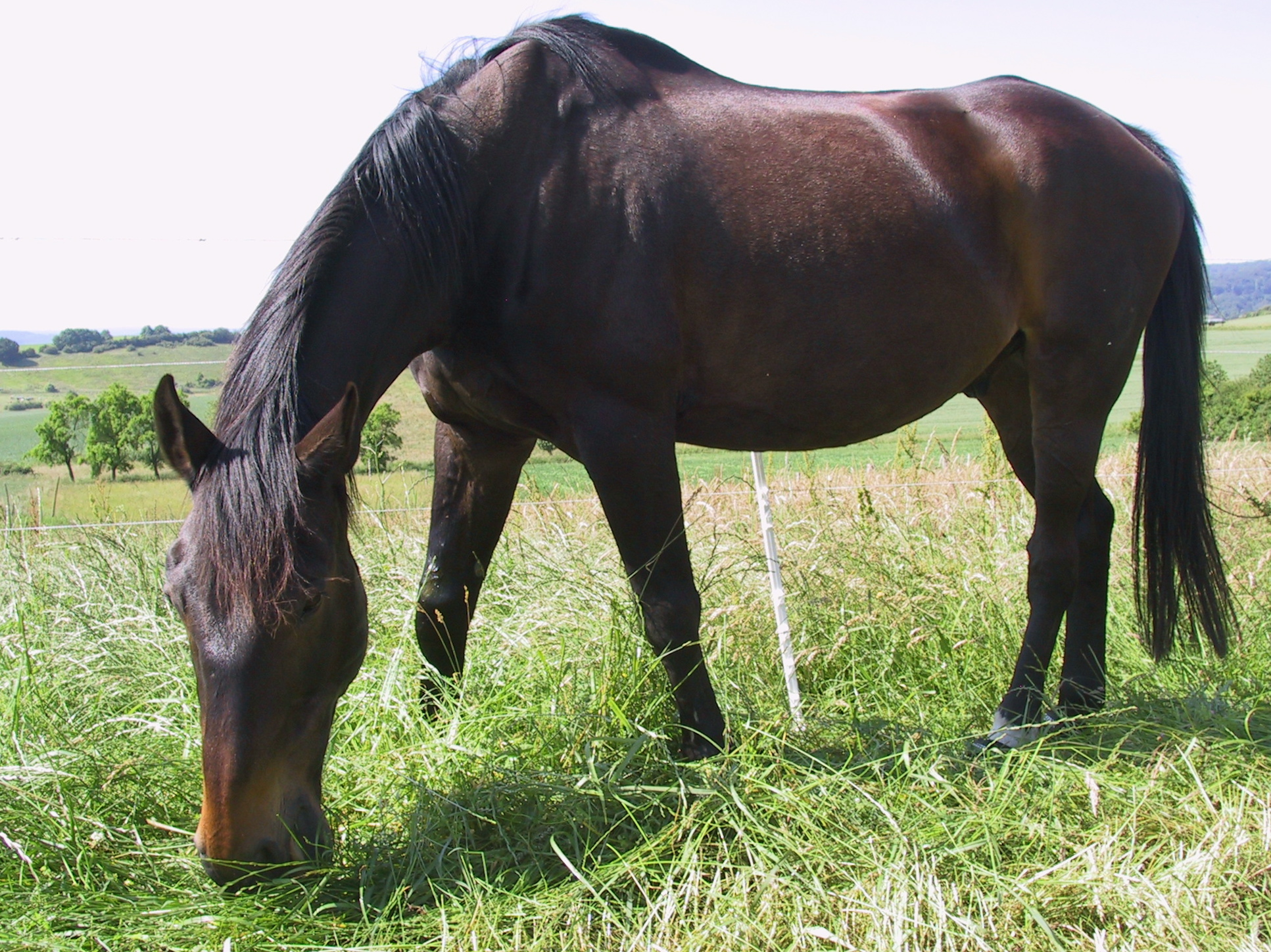 Hessian horse